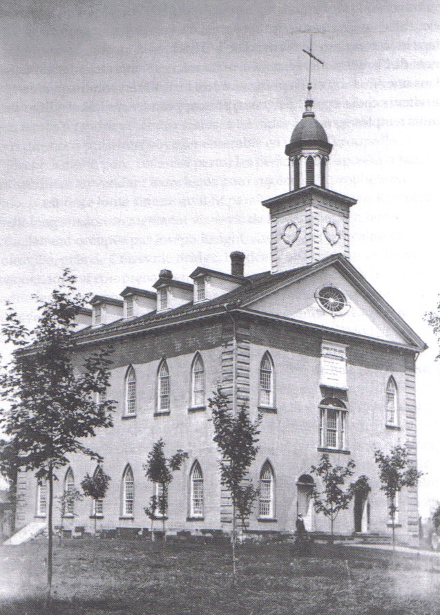 Kirtland Temple, Ohio, USA, vers 1900